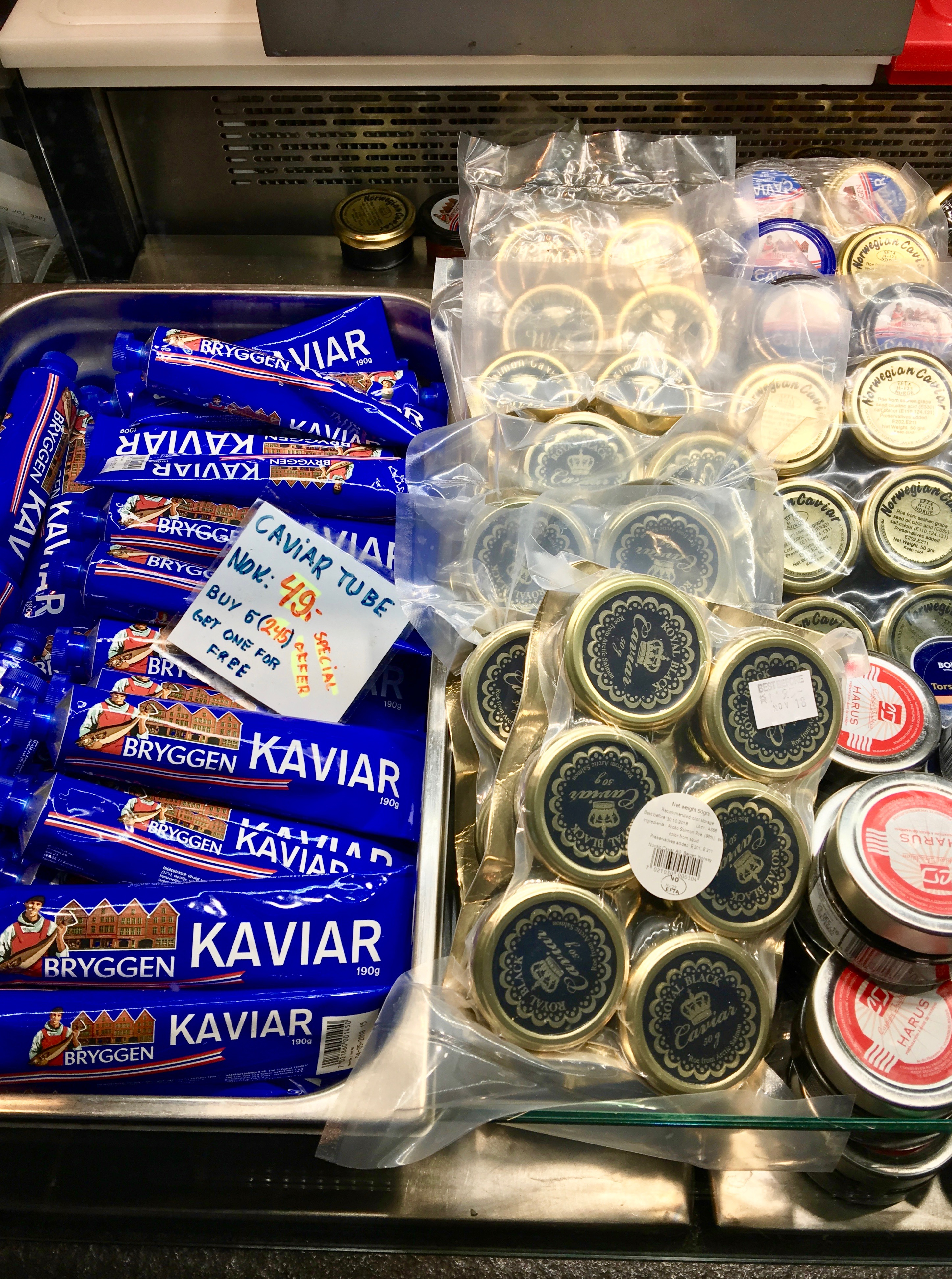 Fiskebryggen, Mathallen, Fishmarket, Bergen, Norway 2018-03-18. Norwegian caviar in tubes, cans, etc. for sale at Fish Me sea food store.